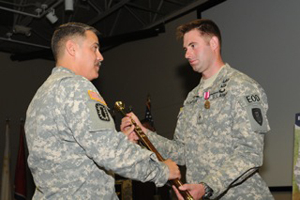 Command Sgt. Maj. David Puig (left), senior enlisted adviser for 20th Support Command (Chemical, Biological, Radiological, Nuclear and high-yield explosives), presents the swagger stick to Staff Sgt. Christopher Thompson, team leader with 663rd Ordnance Company (Explosive Ordnance Disposal), 242nd Ordnance Battalion (EOD), 71st Ordnance Group (EOD) from Fort Carson, Colo., during the 2012 EOD Team of the Year competition awards ceremony here Aug. 17. By hosting competitions such as the 2012 EOD Team of the Year, 20th Spt. Cmd. (CBRNE) is ensuring EOD team leaders and members are fully trained and prepared to answer the call of both soldiers down range, and citizens of our great nation at home.